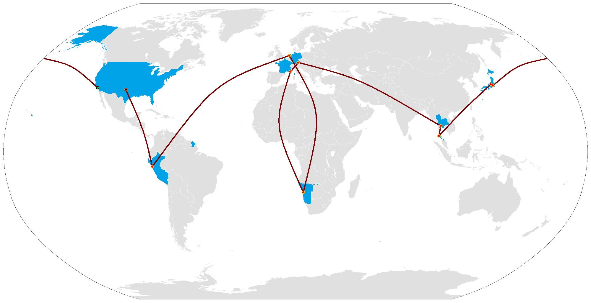 Map of TAR26 I made it 'cus no-one was making one.